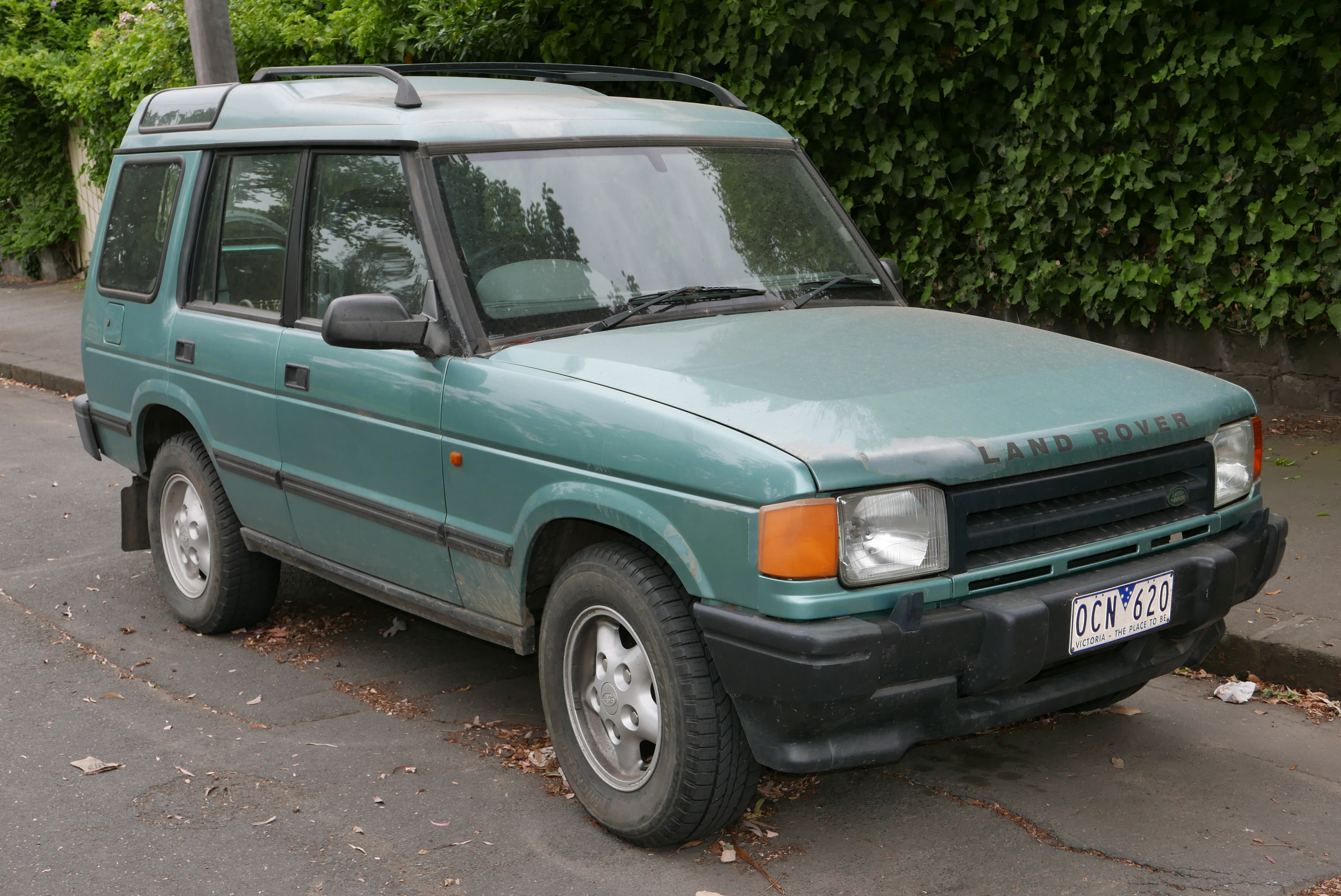 1996 Land Rover Discovery V8i 5-door wagon. Photographed in Princes Hill, Victoria, Australia. Vehicle registration enquiry results Jurisdiction Victoria Registration OCN620 Chassis code SALLJGMM3VA710136 Engine code 38D36428C Compliance date 1996-12 Year of manufacture 1996